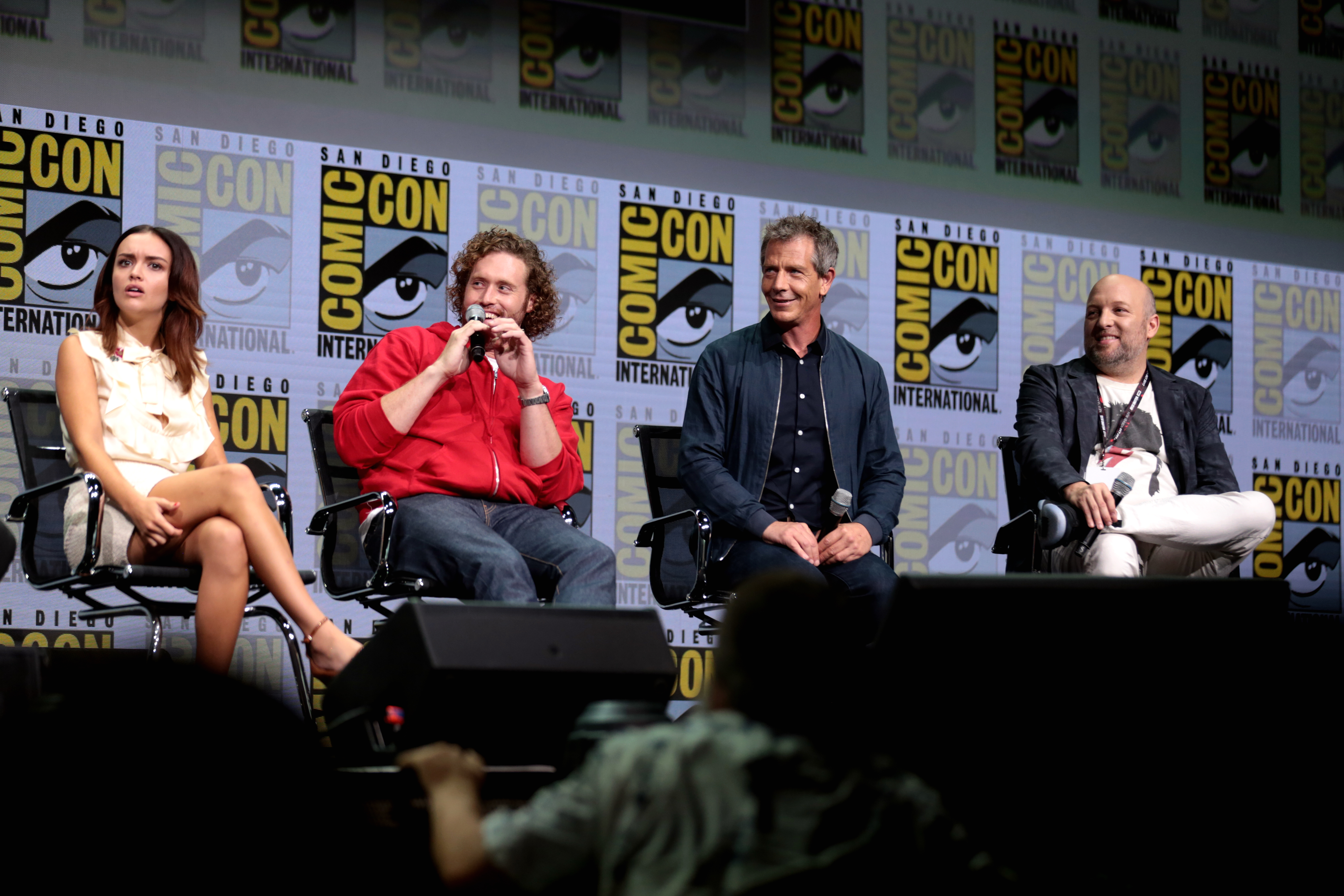 Olivia Cooke, T.J. Miller, Ben Mendelsohn and Zak Penn speaking at the 2017 San Diego Comic Con International, for "Ready Player One", at the San Diego Convention Center in San Diego, California.